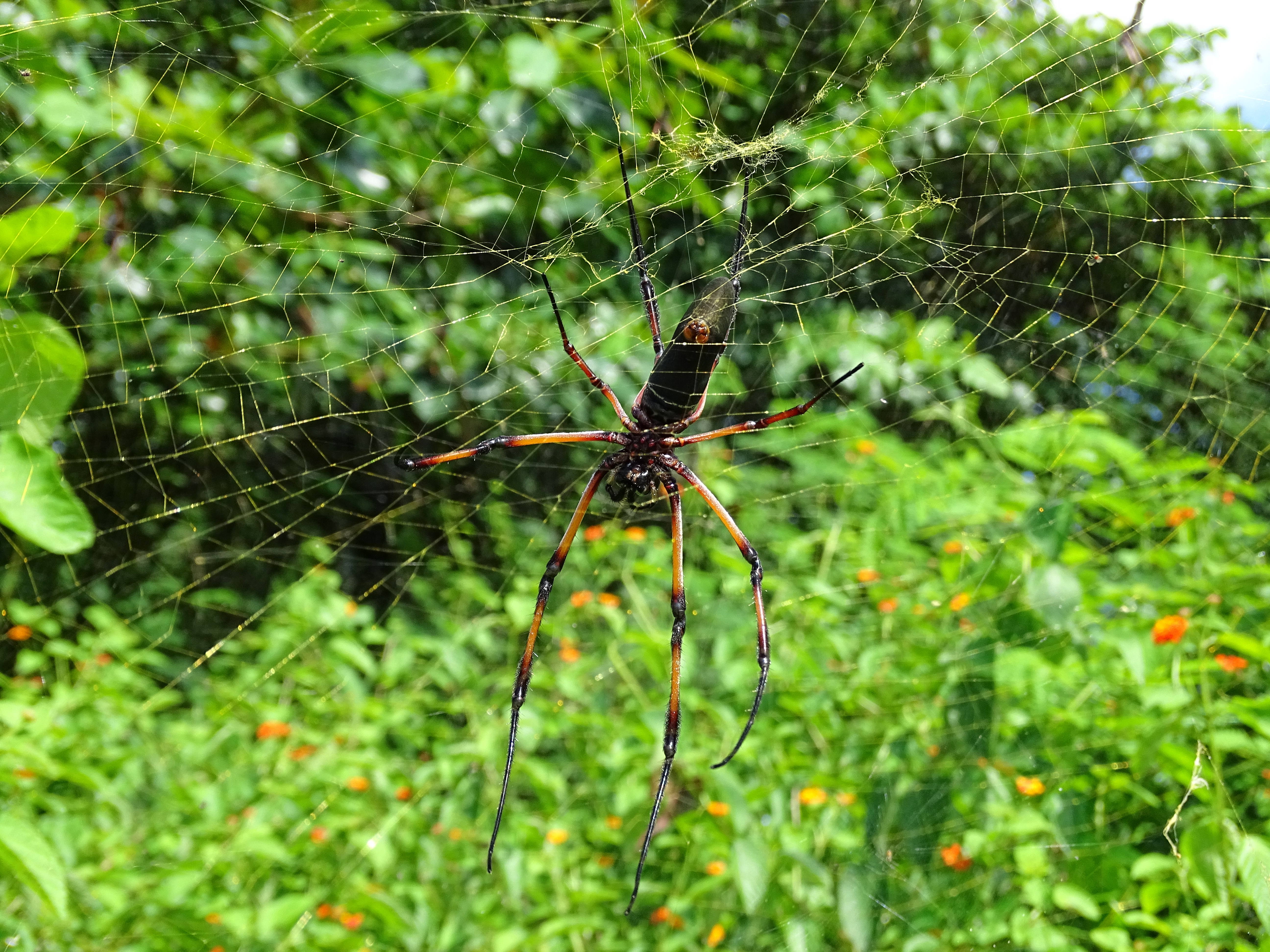 A red-legged golden orb-web spider, or locally "palm spider", on the island La Digue, Seychelles.